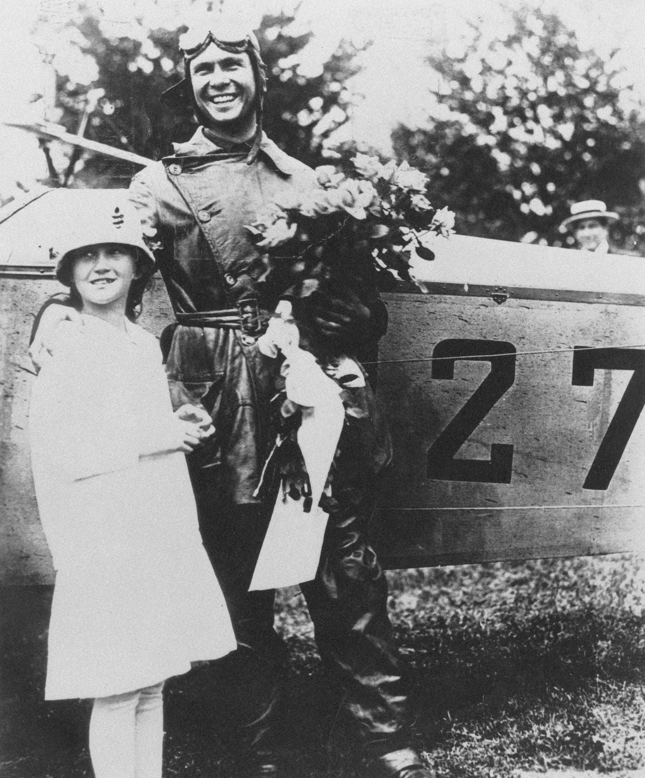 James Clark Edgerton on May 15, 1918. Sources Smithsonian caption James C. Edgerton was an army lieutenant and pilot who helped get America's airmail service off the ground. Edgerton was one of a group of army air corps pilots who flew the mail for the Post Office Department from May 18 - August 8, 1918. On the first day of the service Edgerton flew from the mail from Philadelphia, Pennsylvania to Washington, DC. This photograph shows Lt. Edgerton posed in front of his Curtiss JN-4H "Jenny" mail airplane with his younger sister. National Postal Museum, Curatorial Photographic Collection Photographer: Unknown. Original Corbis caption Lieutenant James C. Edgerton holding roses given to him by his sister Elizabeth after finishing the last stretch of the airmail flight from Philadelphia to Washington. He flew the last leg of the first regular airmail route flight from DC to Philadelphia to New York and back. Edgerton had only one emergency landing in his 52 airmail flights.